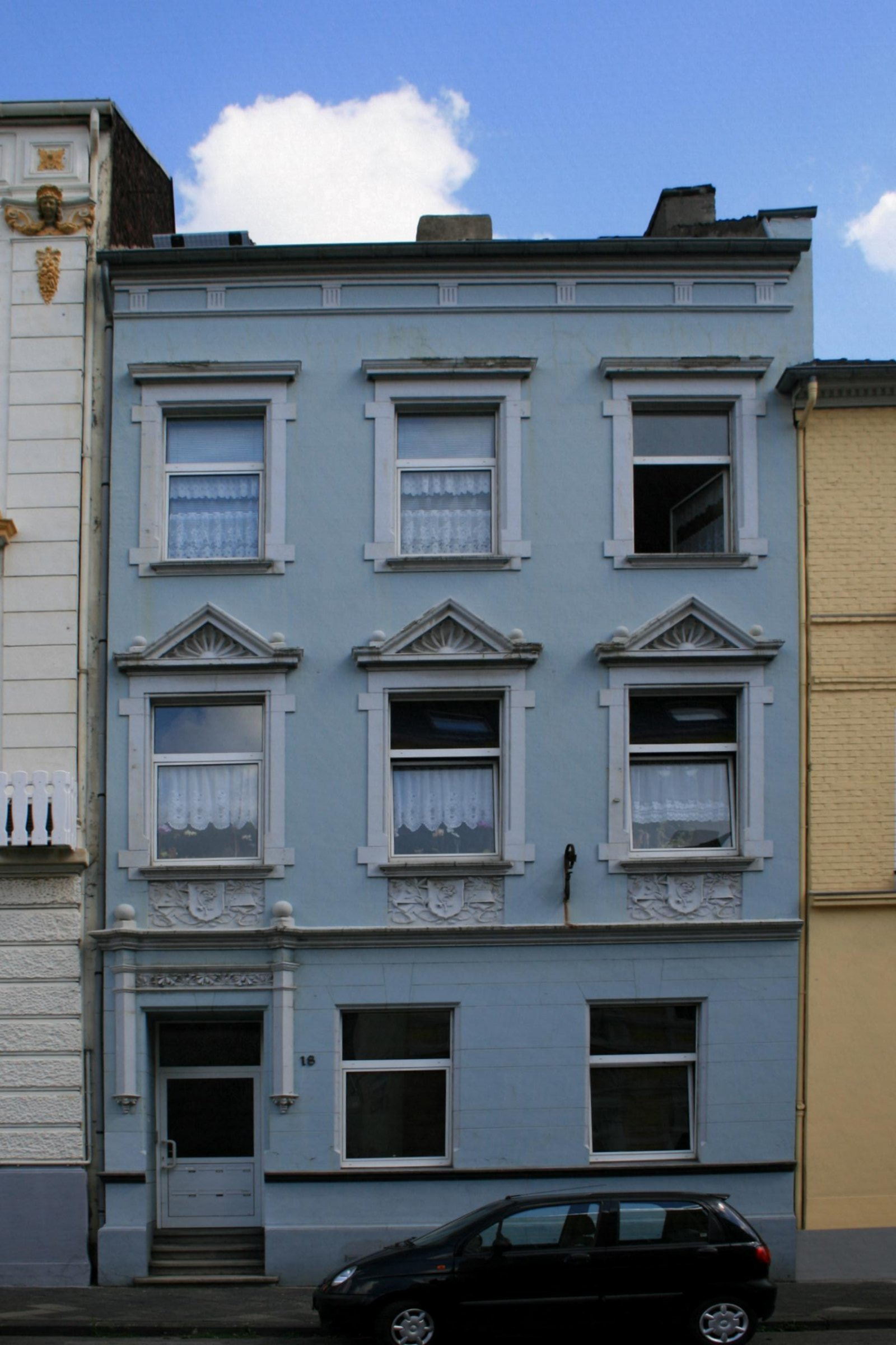 Cultural heritage monument No. Sch 001 in Mönchengladbach